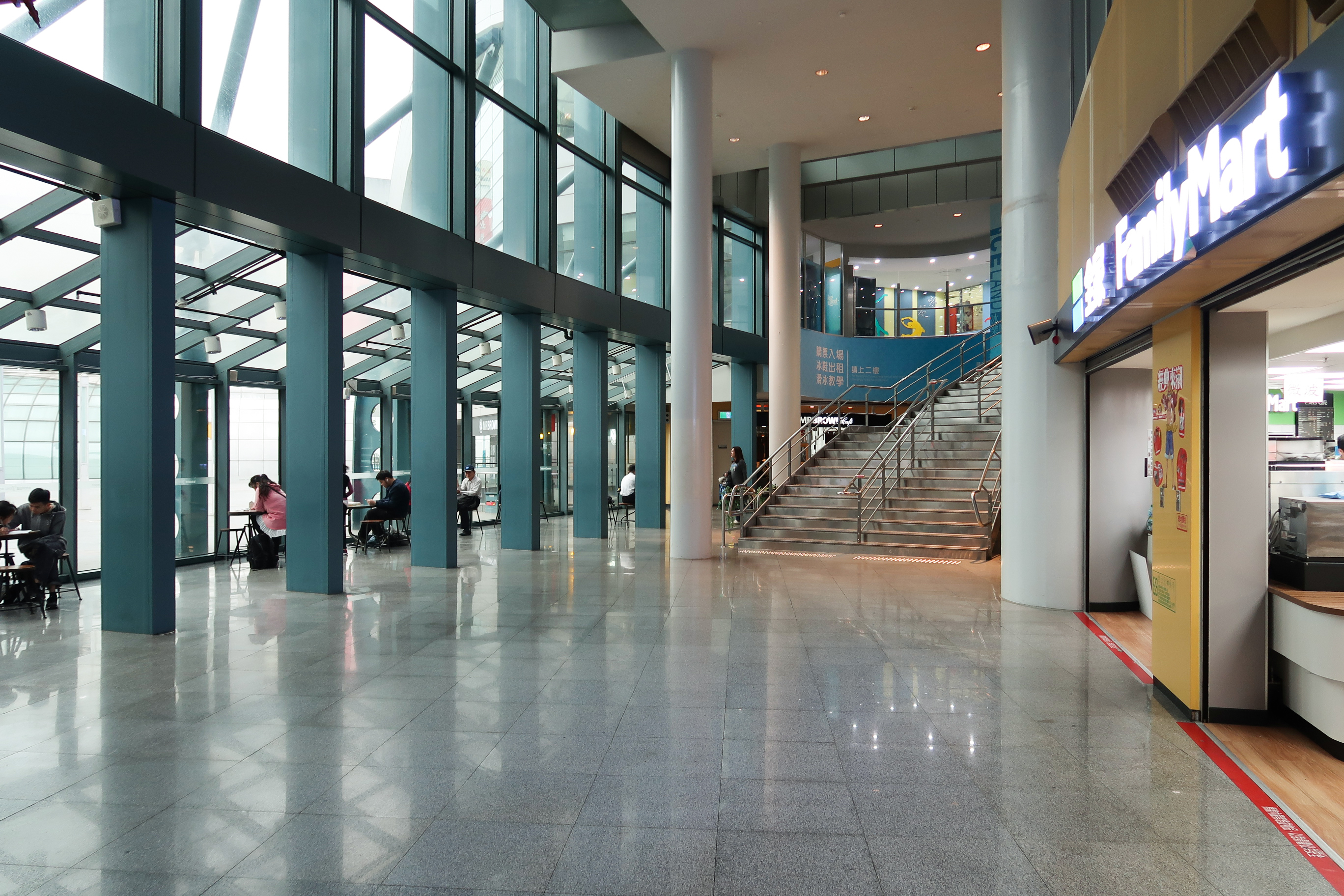 Interior of Taipei Arena